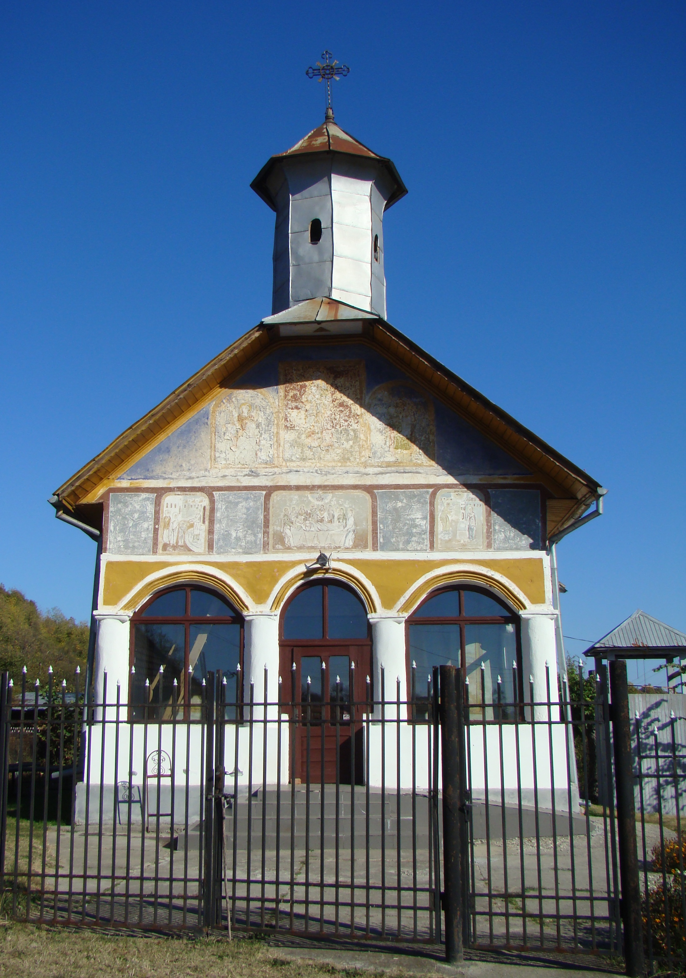 Croici, Gorj county, Romania